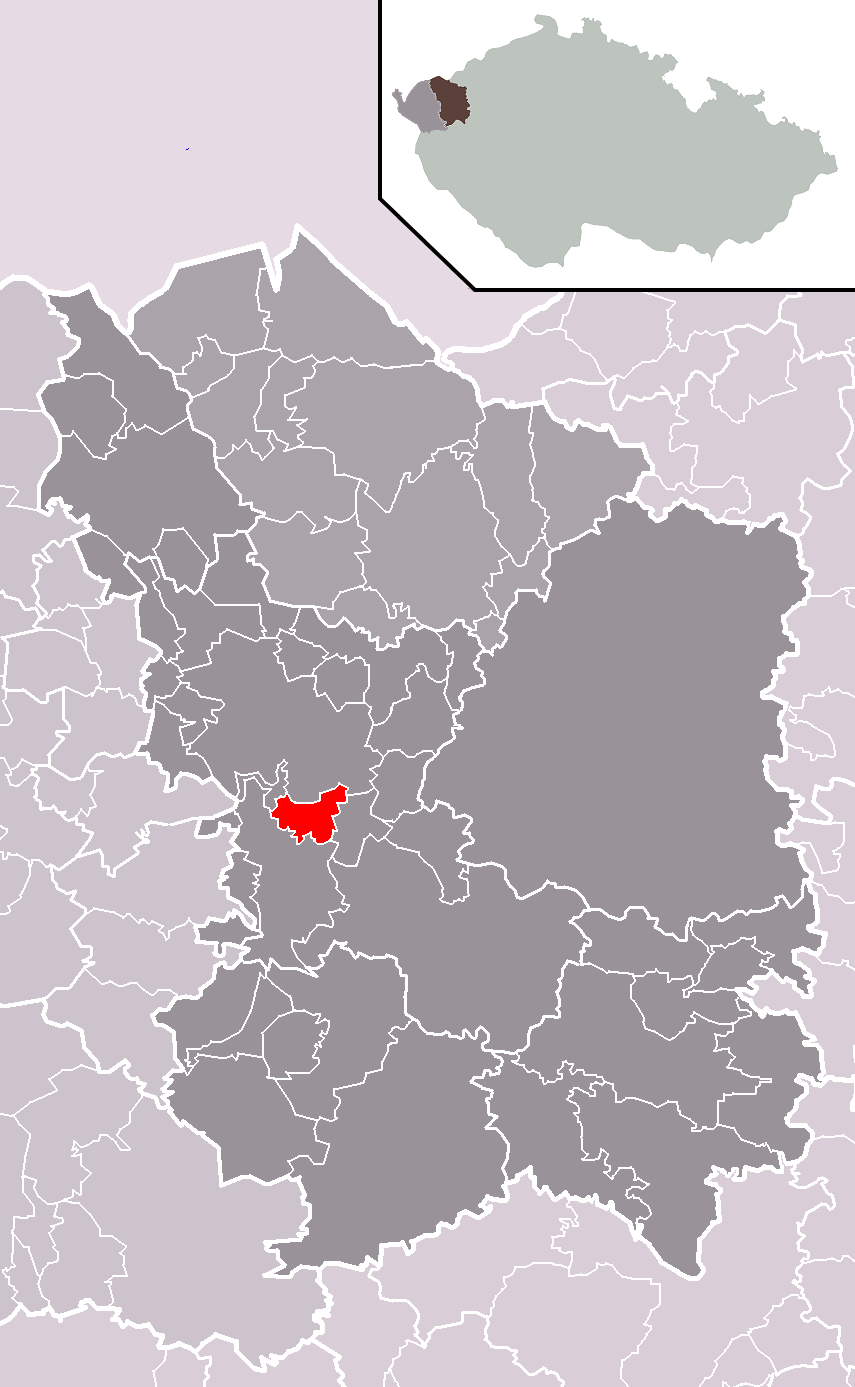 Location of Kolová municipality within Karlovy Vary District and administrative area of Karlovy Vary as a Municipality with Extended Competence.